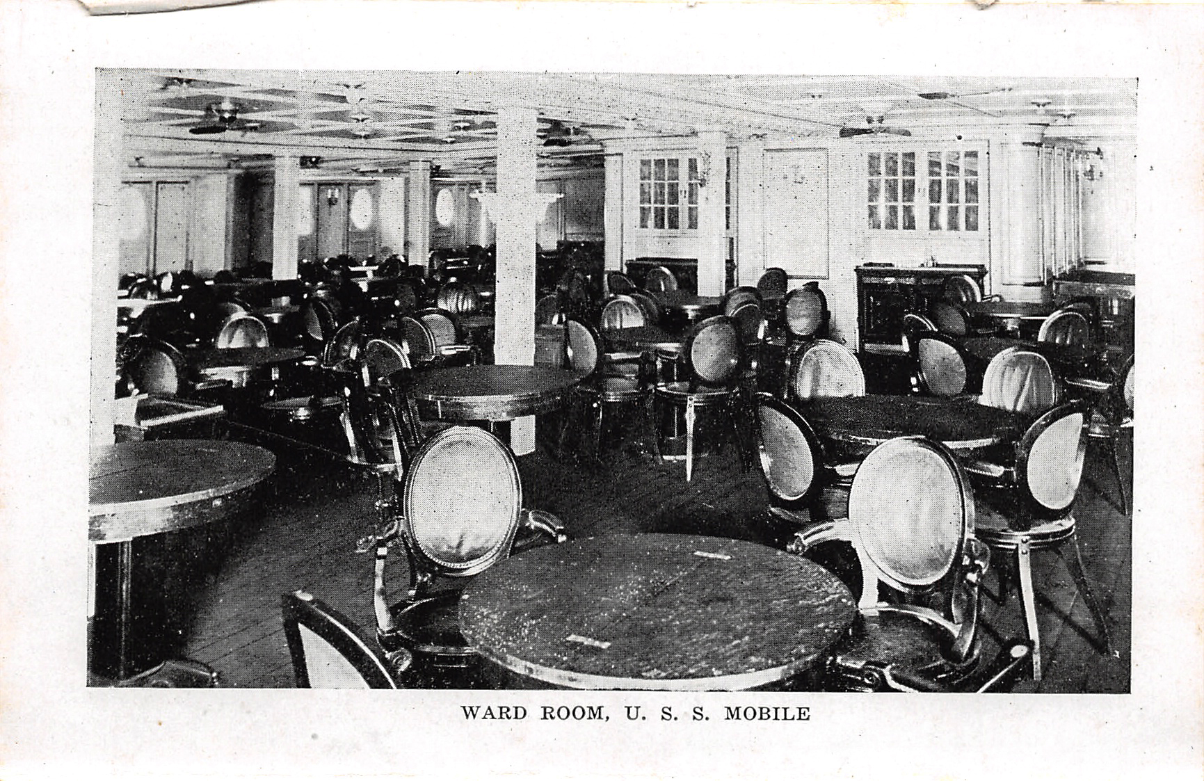 Ward Room, U.S.S. Mobile